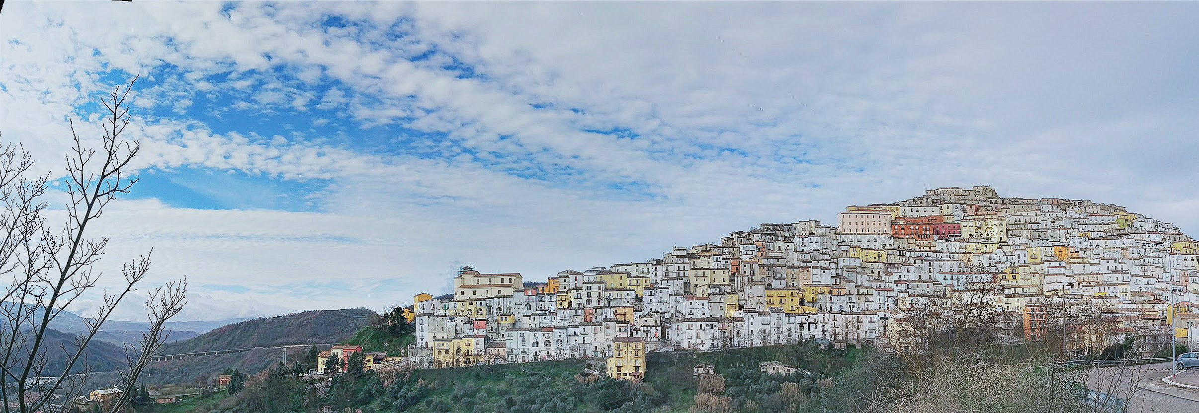 Calitri Landscape